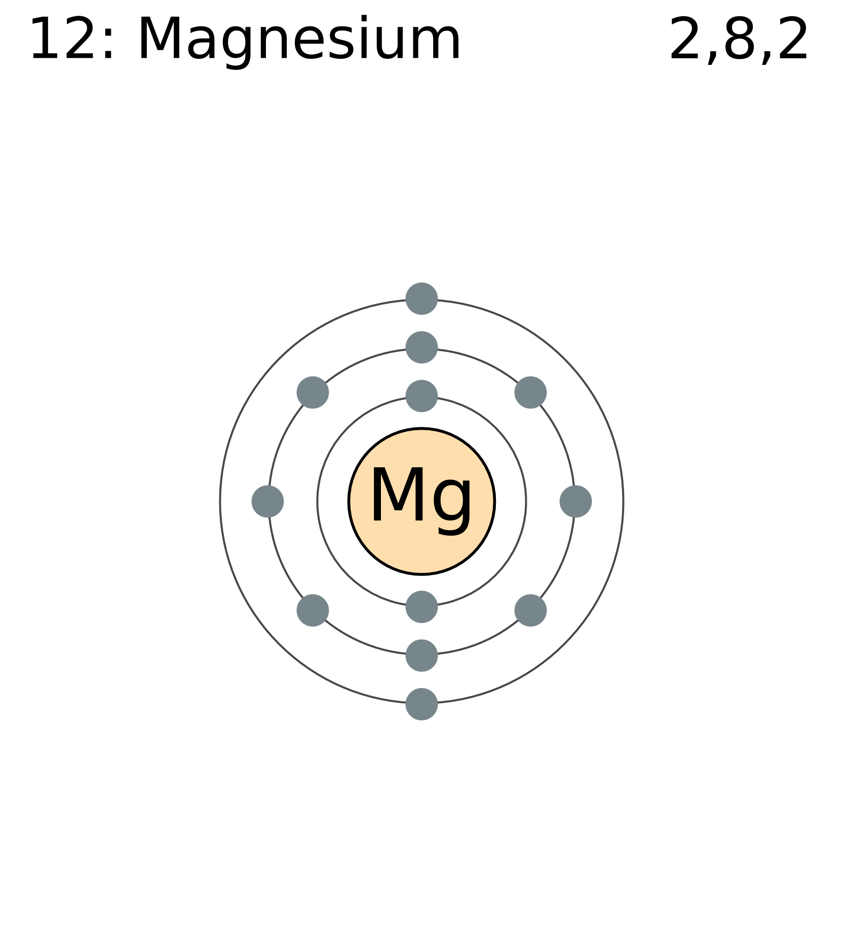 Electron shell diagram for Magnesium, the 12th element in the periodic table of elements.